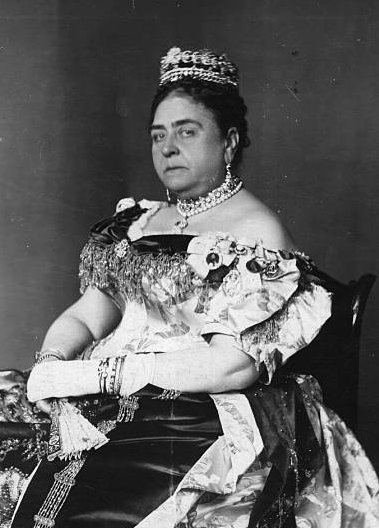 Princess Mary Adelaide, Duchess of Teck, (1833–1897), born Princess Mary Adelaide of Cambridge, was the mother of Queen Mary, the consort of King George V.